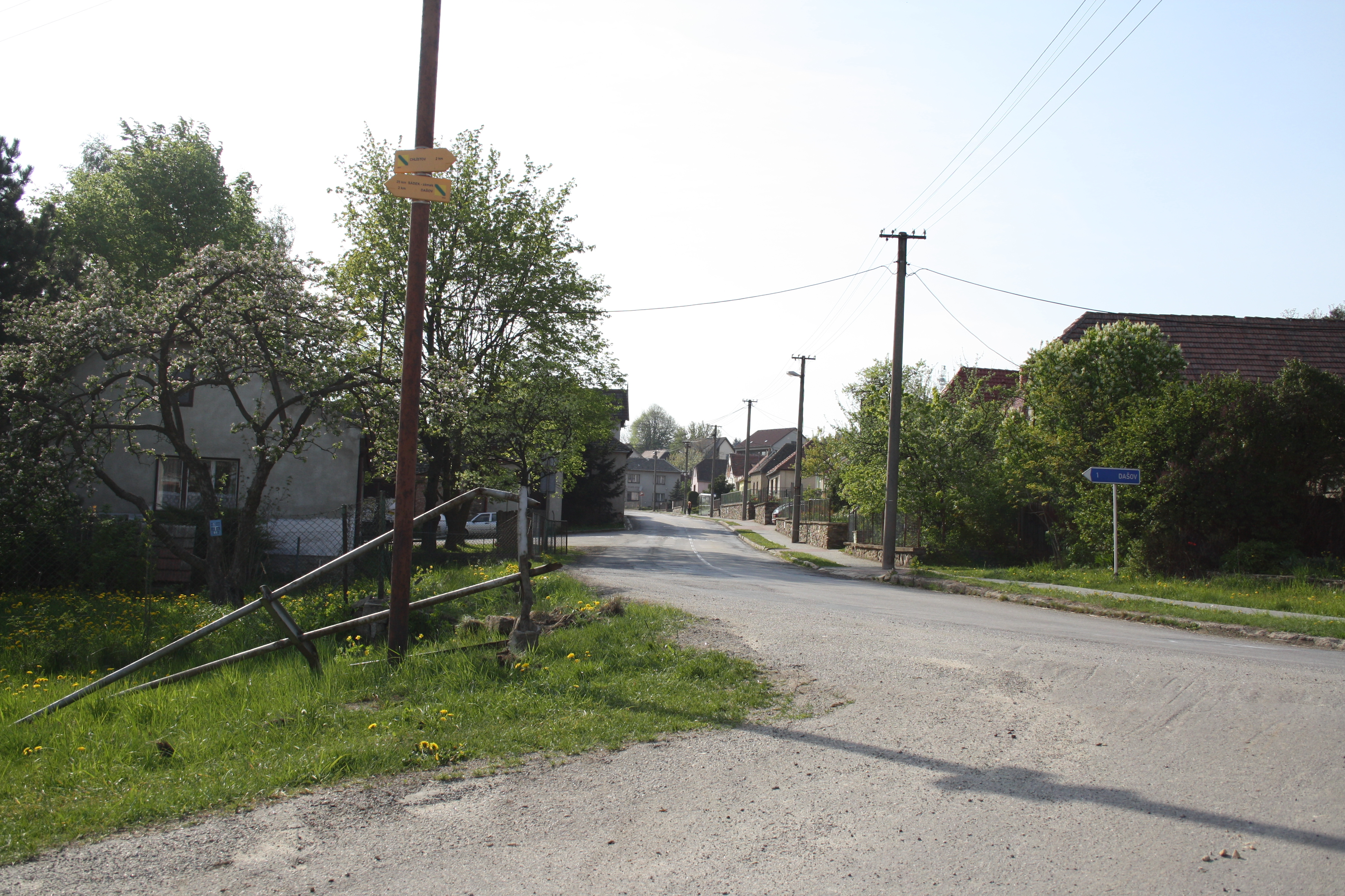 Center of Štěměchy, Czech Republic.